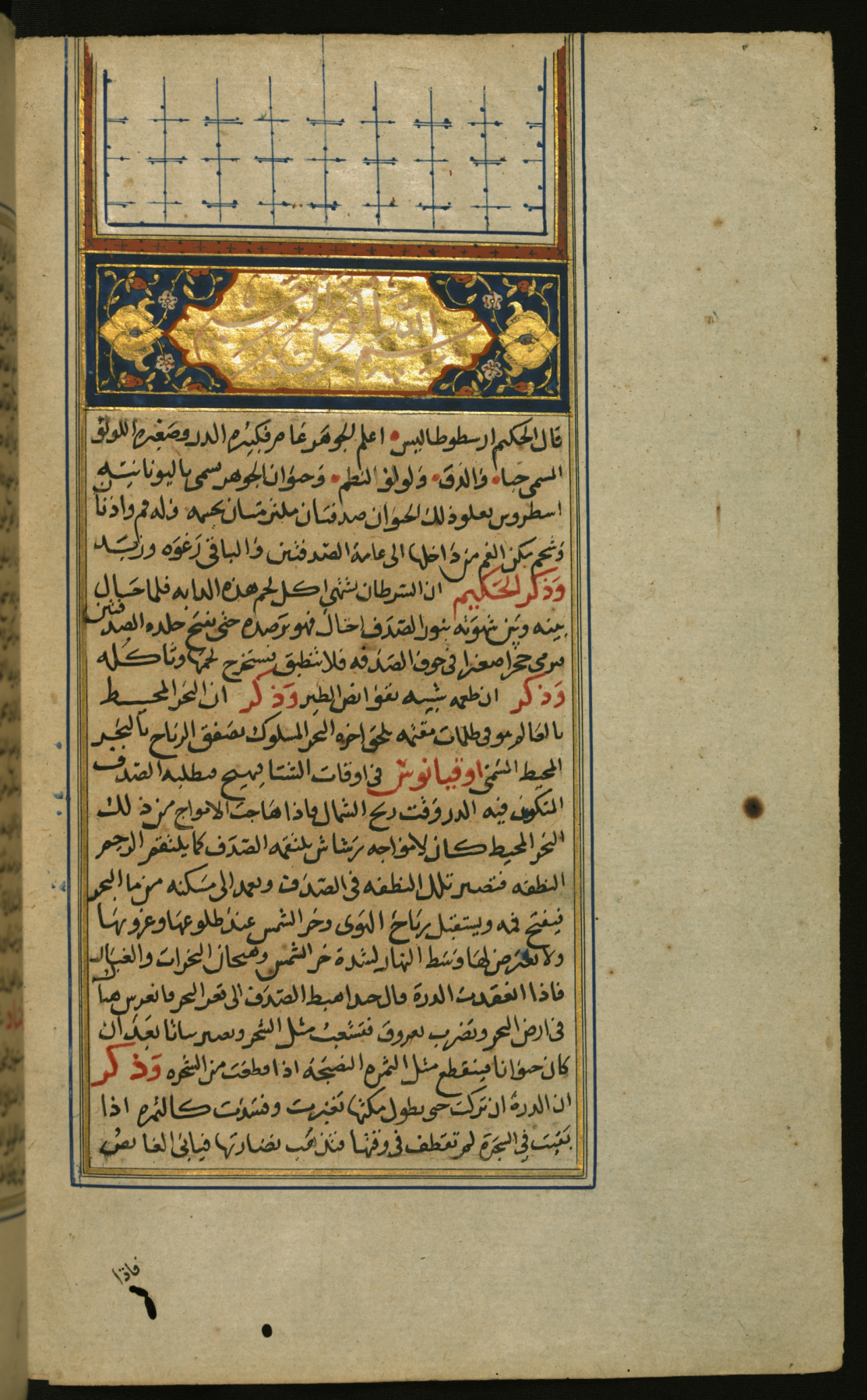 This illuminated headpiece from Walters manuscript W.589 is inscribed with the doxological formula (basmalah) in the rectangular panel.